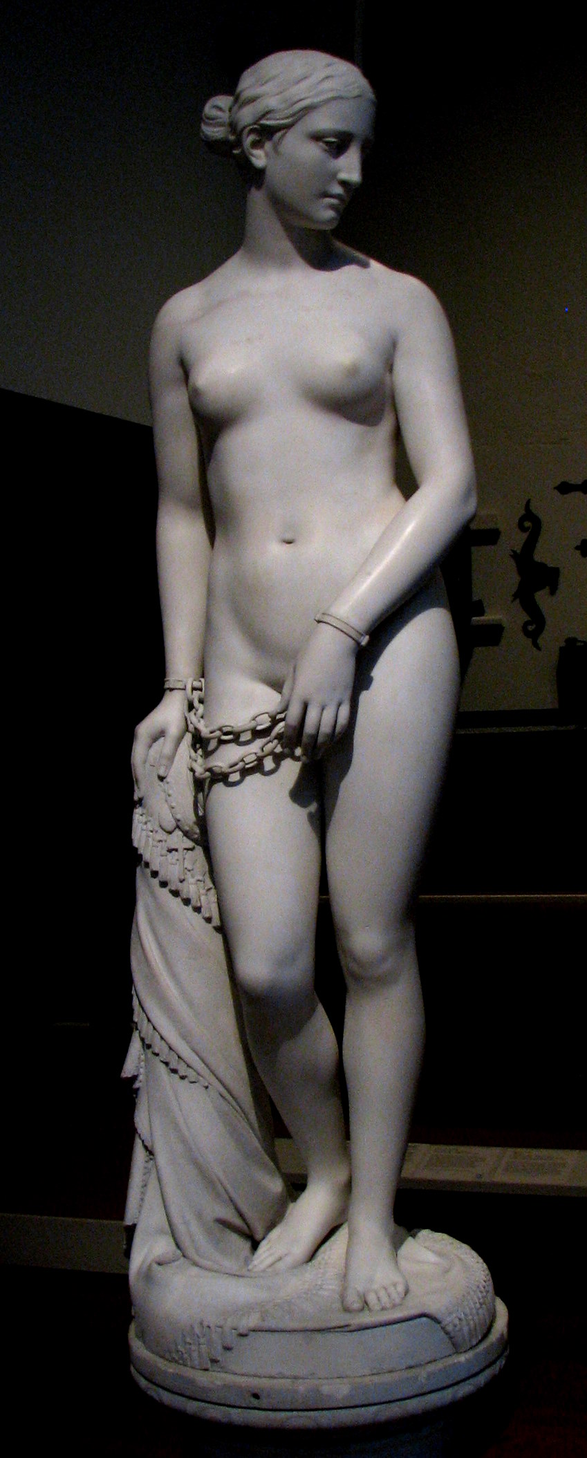 Hiram Powers (sculptor). The Greek Slave. 1851. Marble. 165.7 × 53.3 × 46.4 cm. New Haven, Connecticut, Yale University Art Gallery (inv.no. 1962.43).